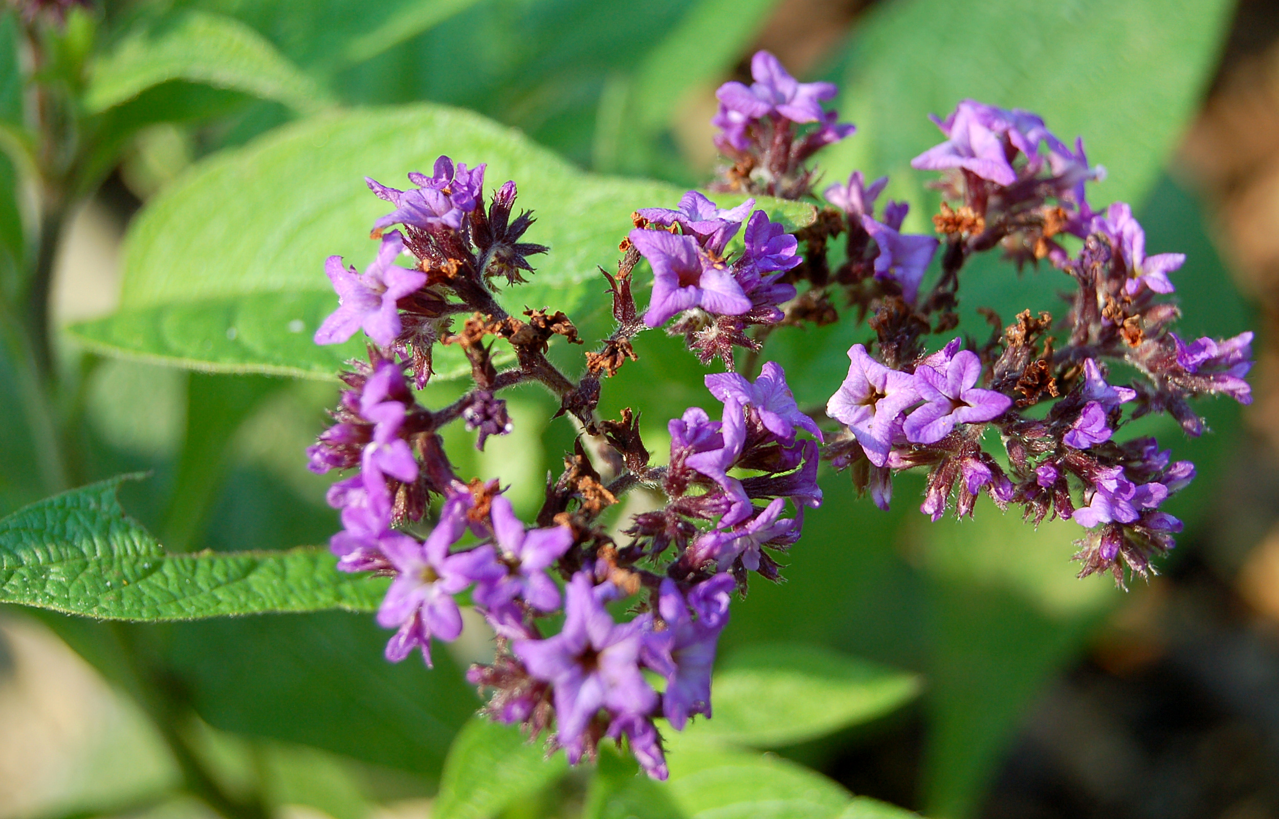 Photograph of a flower cluster of the Heliotrope (Heliotropium arborescens). Photo taken at the Tyler Arboretum where it was identified.